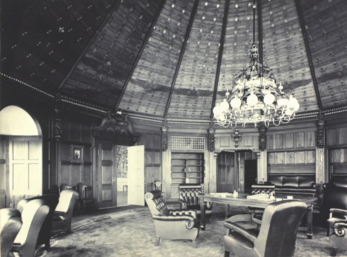 Kongelig dansk Yachtklubs salon i Langeliniepavillonen